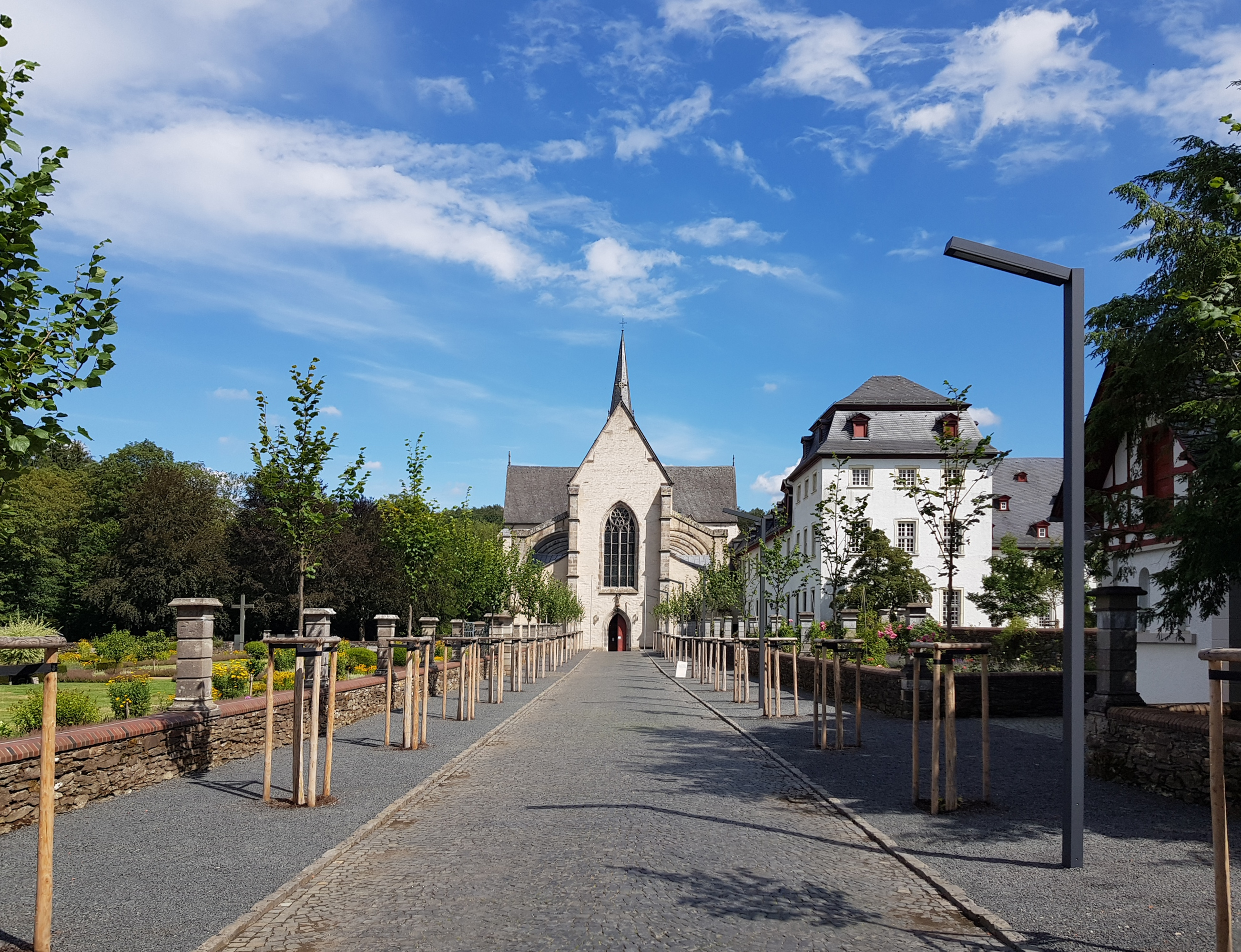 Marienstatter Basilika-Allee